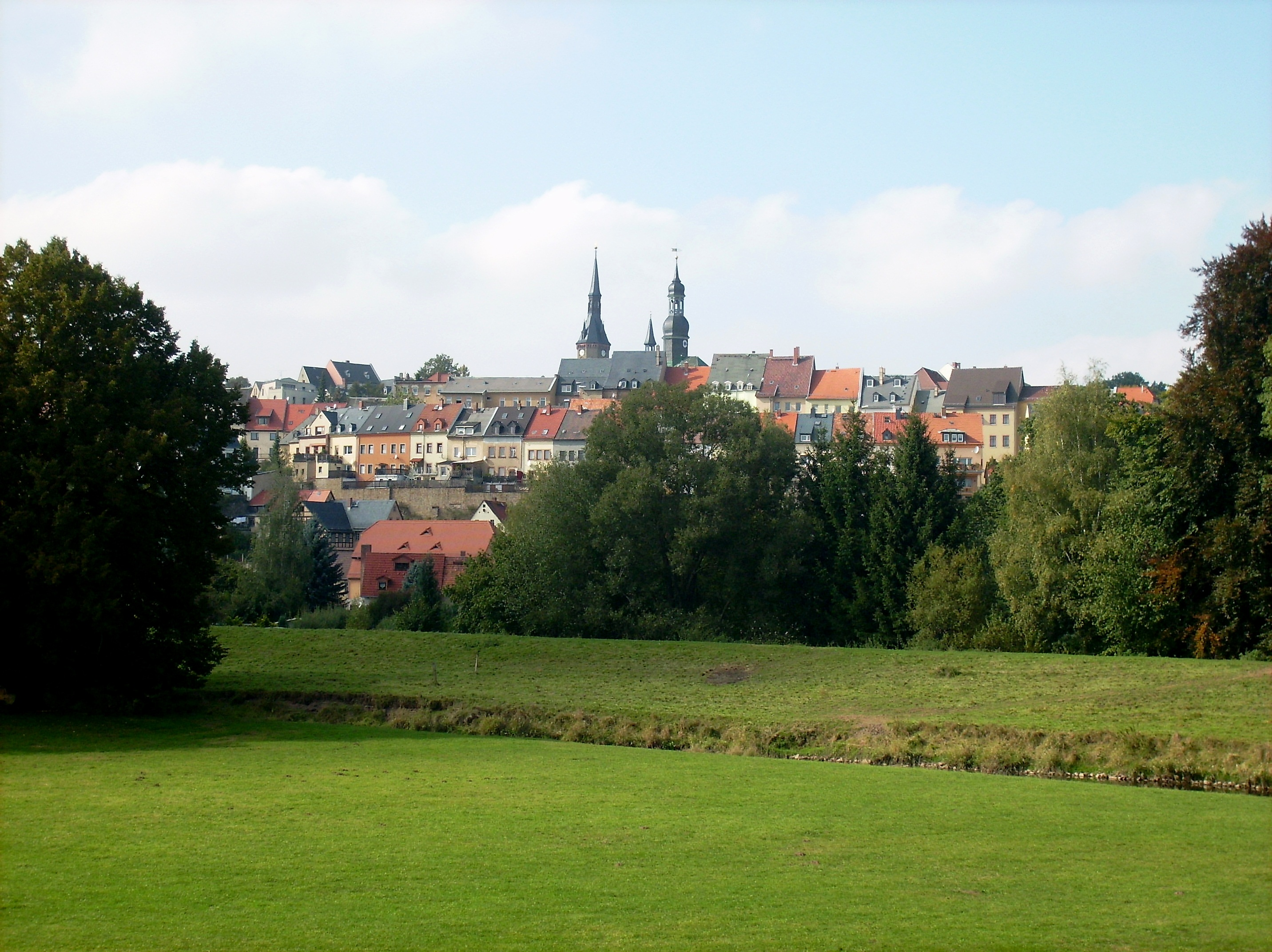 View of Waldenburg (Zwickau district, Saxony) across the Zwickauer Mulde